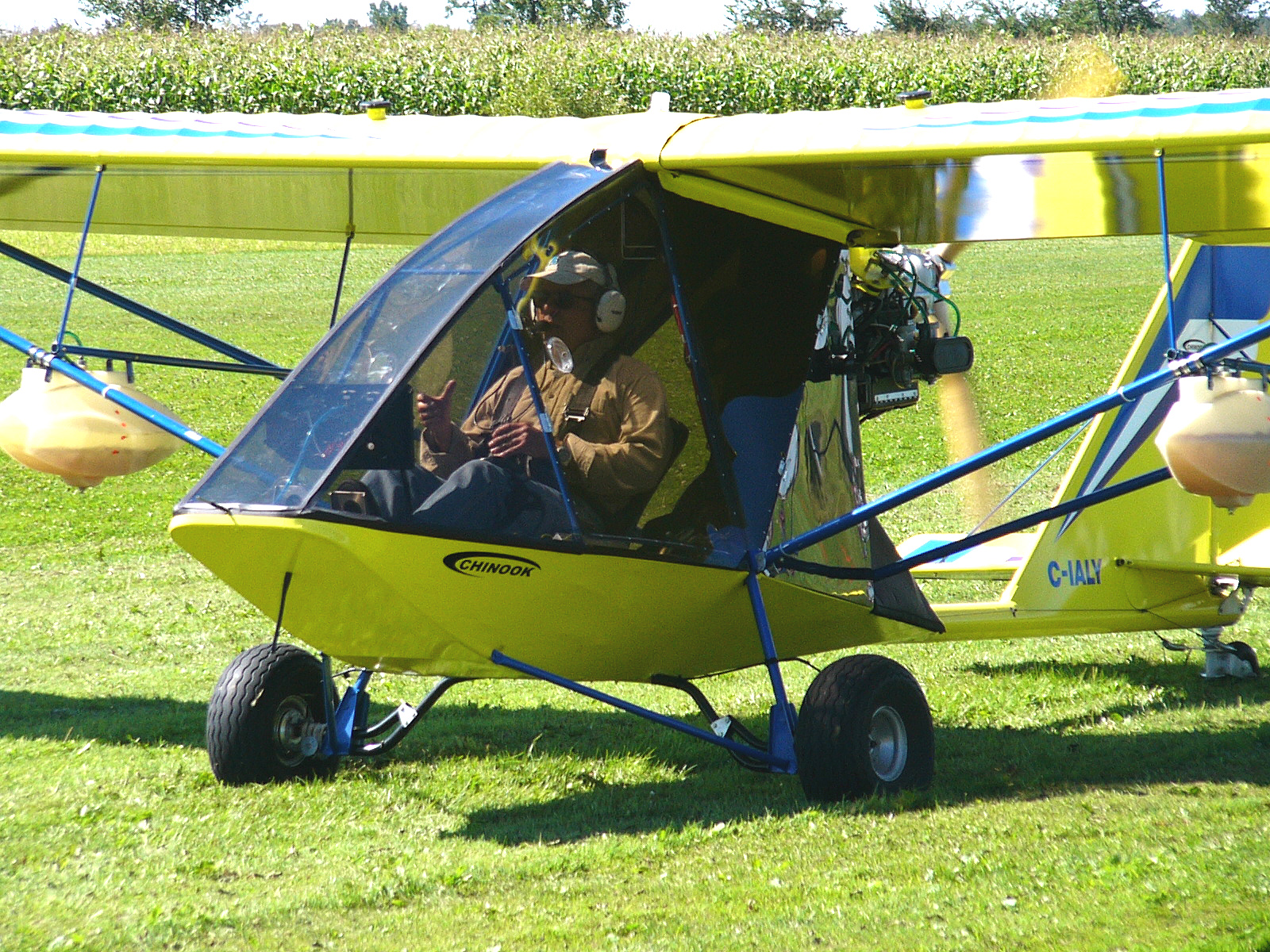 ASAP Chinook Plus 2 at the Embrun, Ontario, Canada Fly-in, 2004